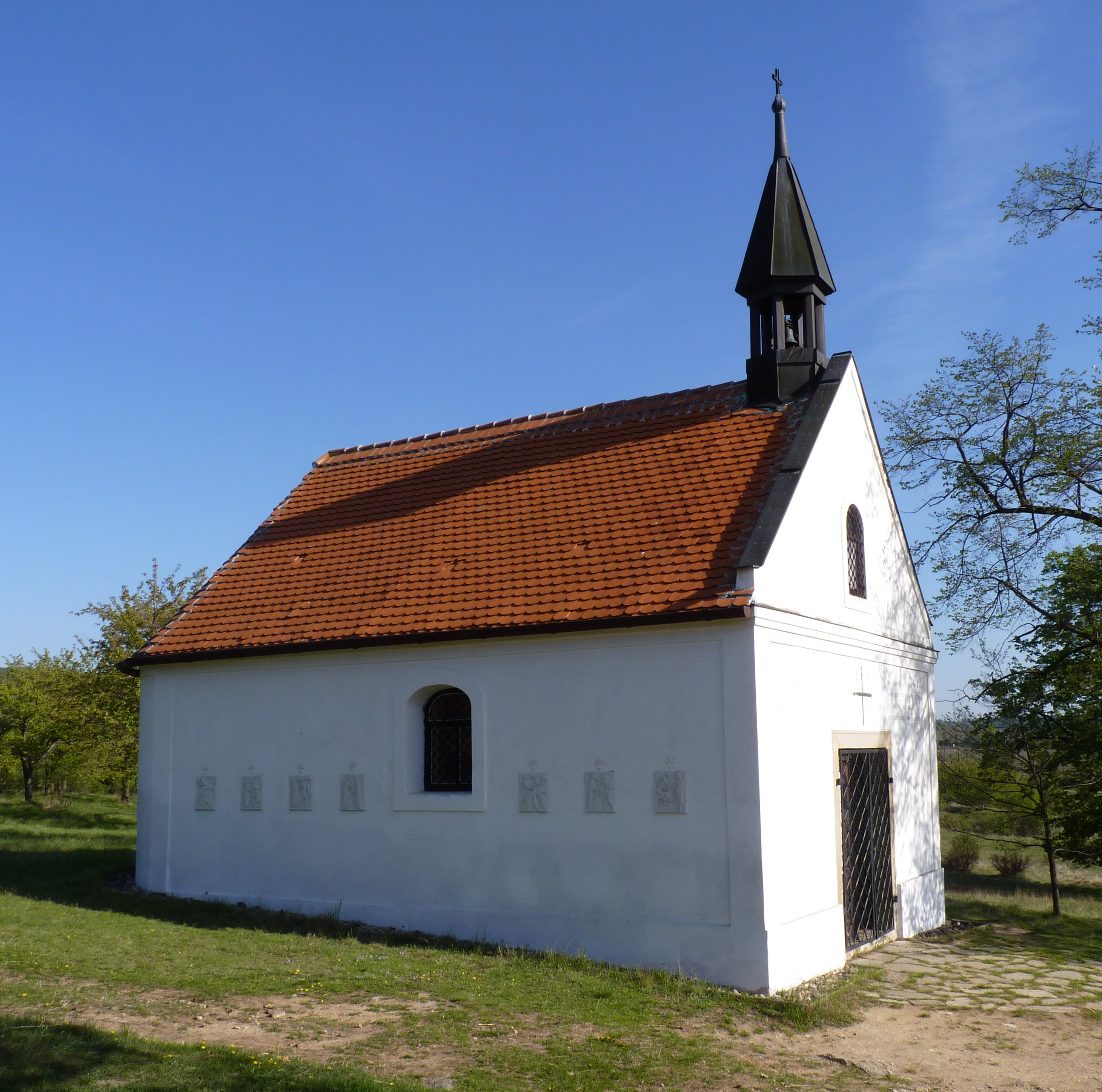 Podyjí National Park. Znojmo District, South Moravian Region, Czech Republic Project: Chráněná území